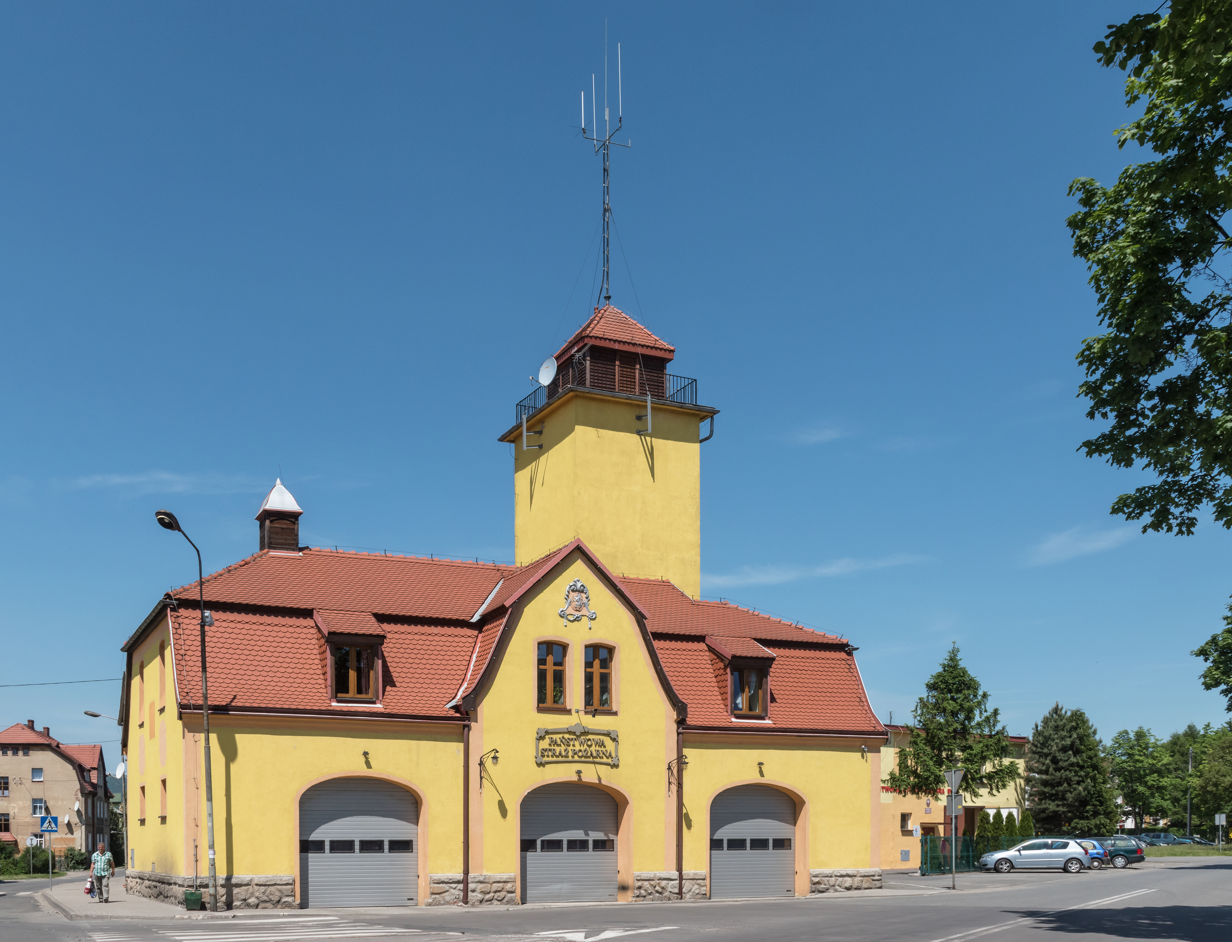 Fire station in Bystrzyca Kłodzka